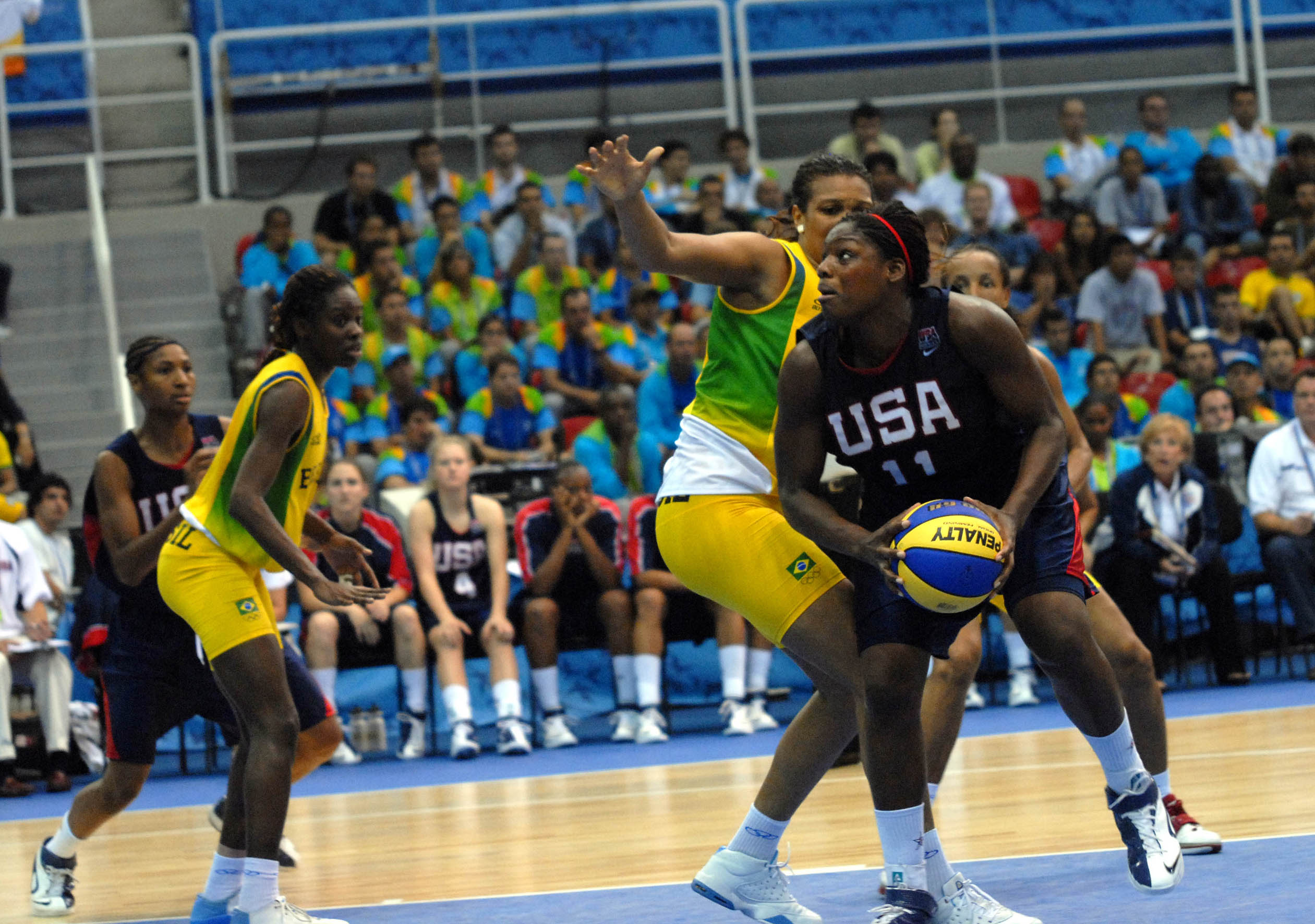 BRA vs. USA - Women's basketball Gold Medal Match - Rio 2007